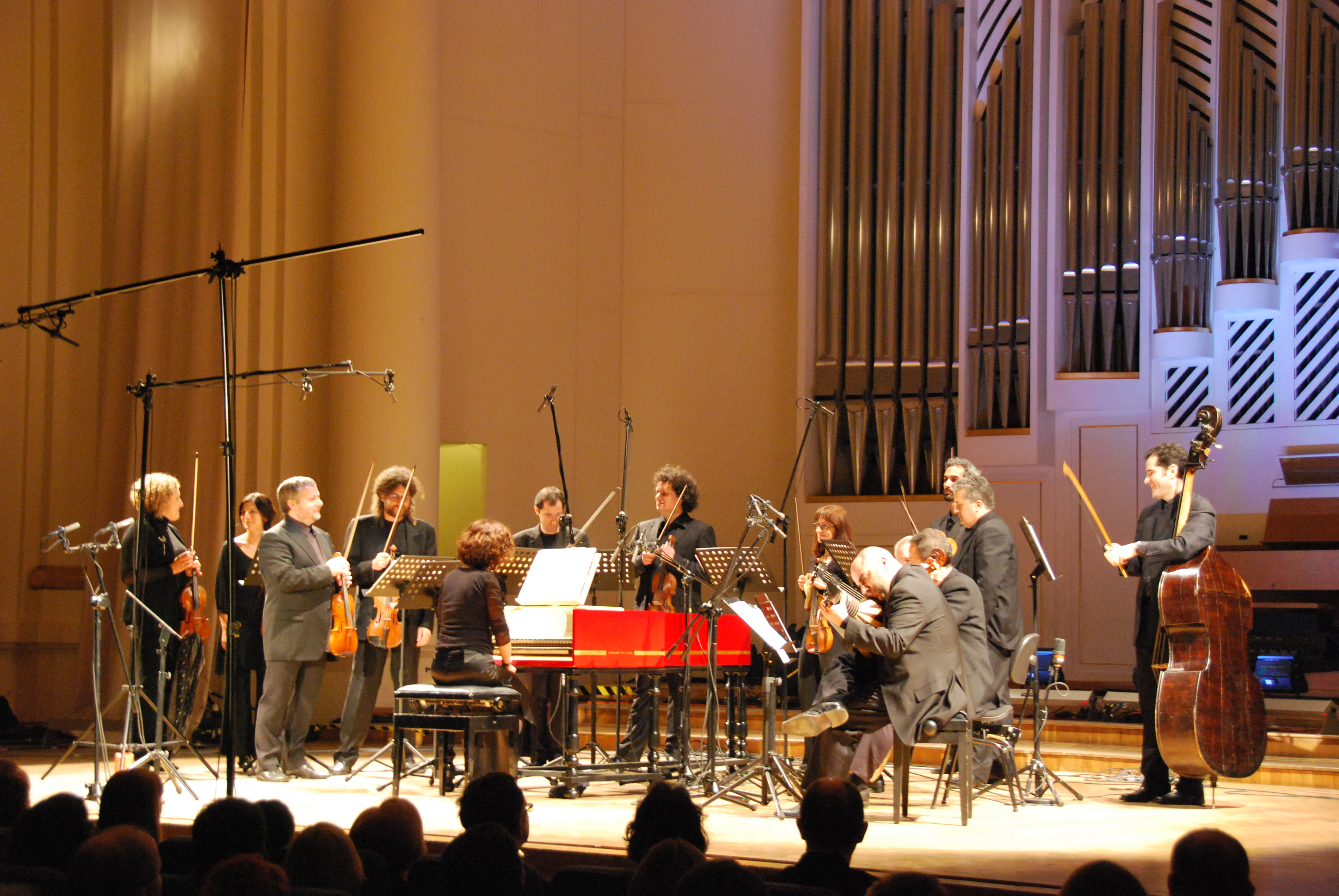 Europa Galante, Misteria Paschalia Festival, Kraków Philharmonic, 05.04.2010.